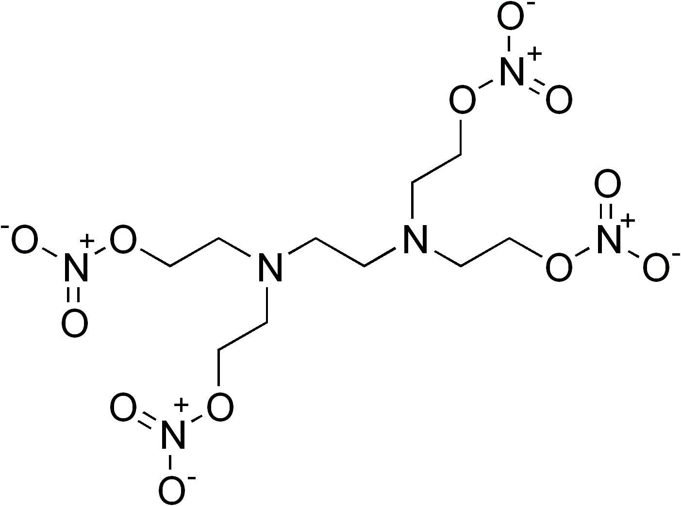 chemical structure of tenitramine